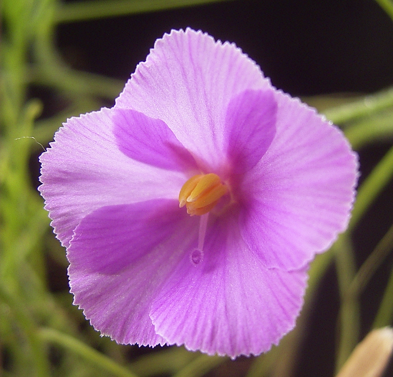 Byblis filifolia flora Author: Denis Barthel